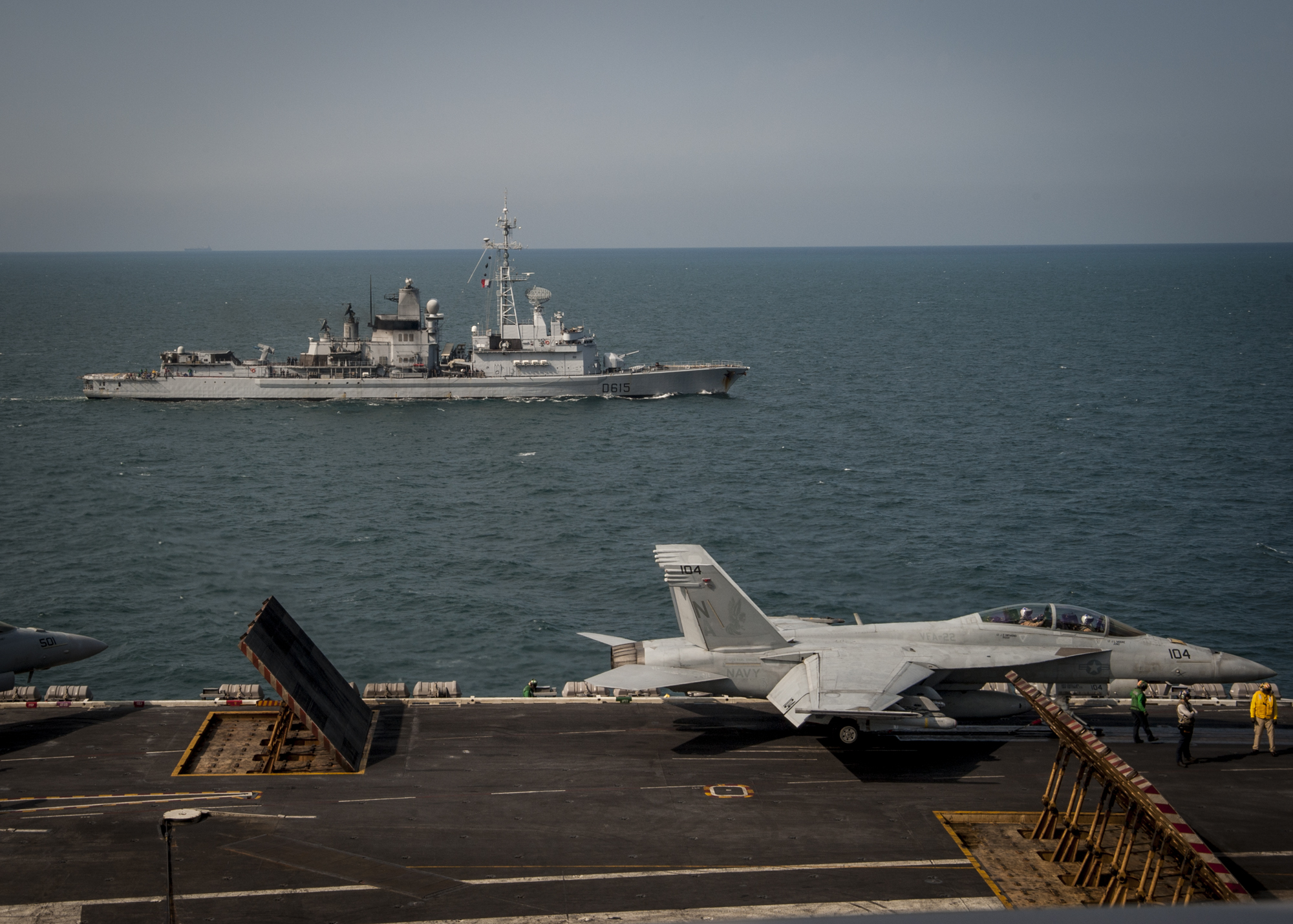 The French Marine Nationale anti-air frigate Jean Bart (D615) underway alongside the U.S. Navy aircraft carrier USS Carl Vinson (CVN-70) in the Arabian Sea. A Boeing F/A-18F Super Hornet from Strike Fighter Squadron 22 (VFA-22) "Fighting Redcocks" is read for launch from Carl Vinson. VFA-22 was assigned to Carrier Air Wing 17 (CVW-17) aboard the Carl Vinson for a deployment to the Western Pacific and the Indian Ocean starting 22 August 2014.